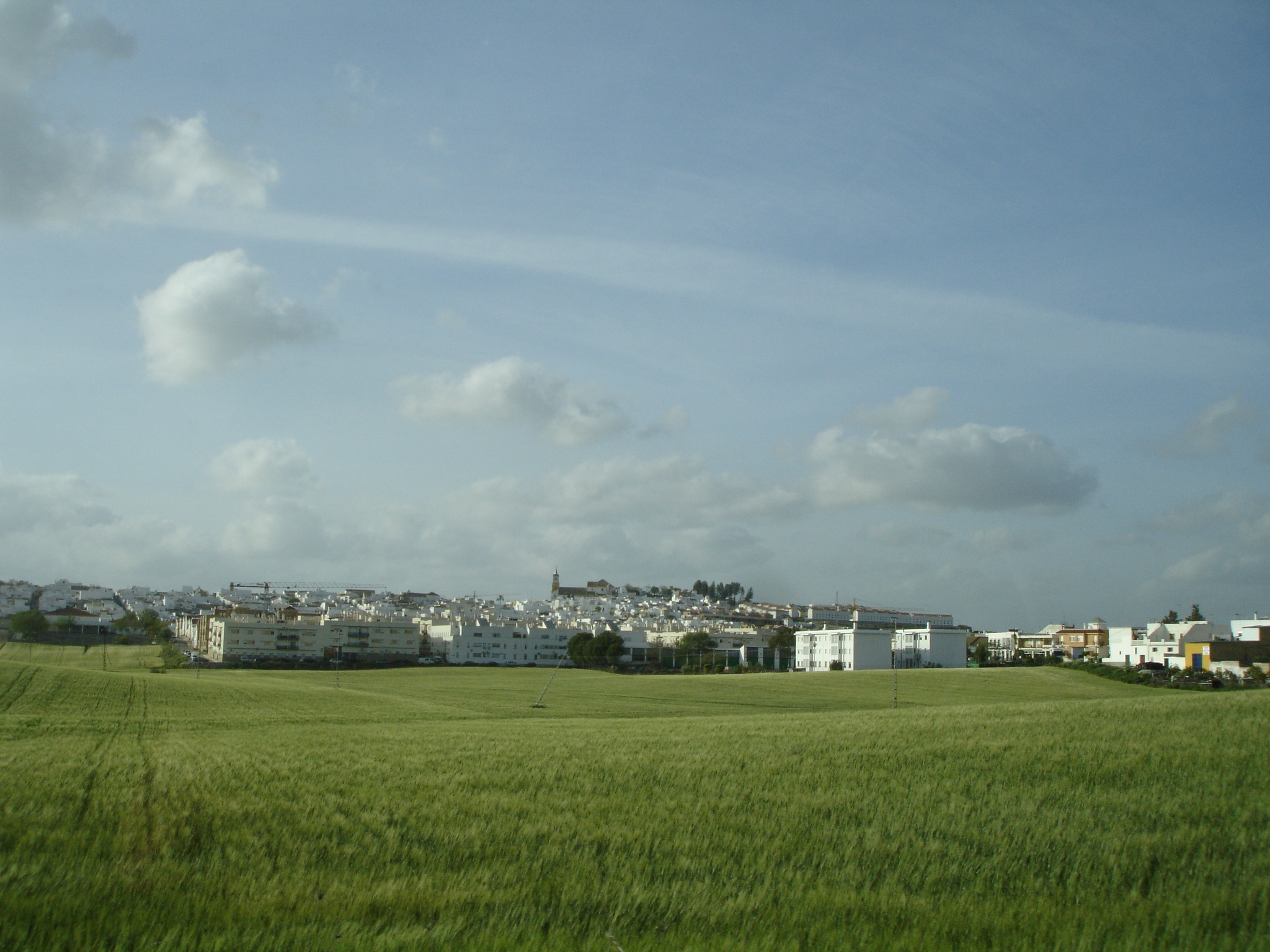 Villamartín, in the province of Cadiz, Spain.